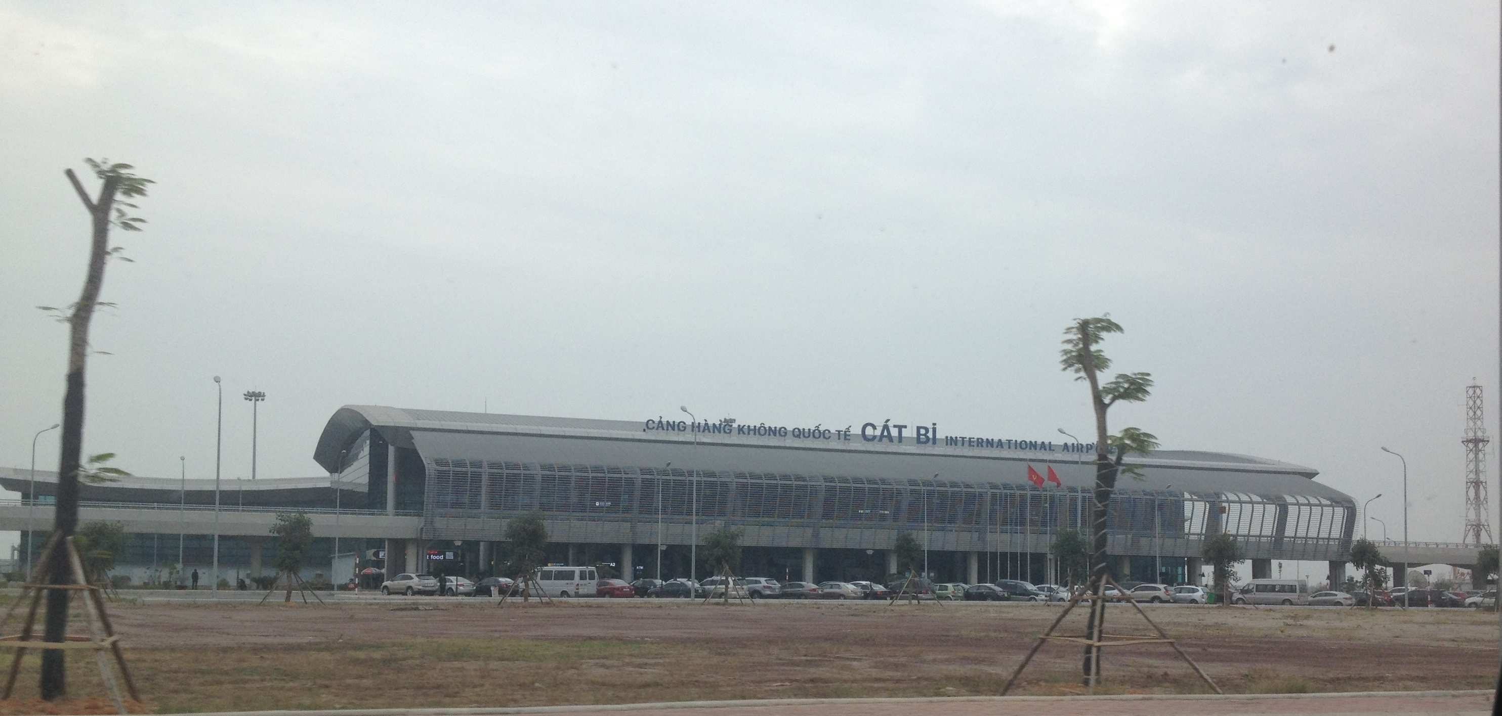 Exterior of Cat Bi International Airport Terminal in Hai Phong